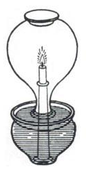 Philo of Byzantium's experiment of the burning candle